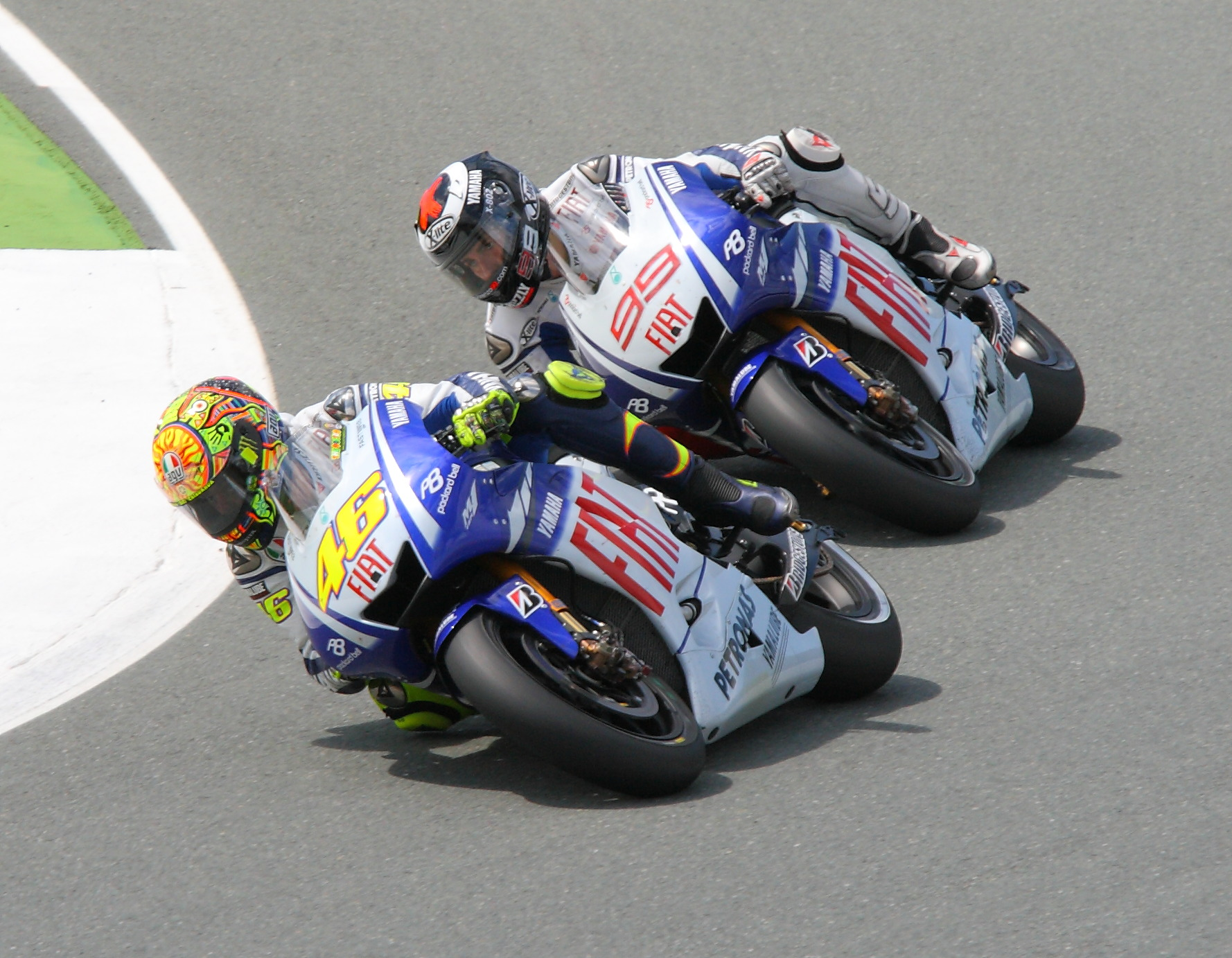 Valentino Rossi and Jorge Lorenzo, riding their FIAT Yamaha machines at the 2009 German Grand Prix.